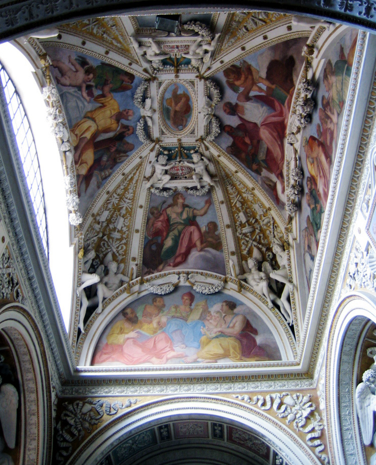 The Theodoli chapel has stuccoes by Giulio Mazzoni, the great stuccoist of palazzo Spada, from the mid-sixteenth century.